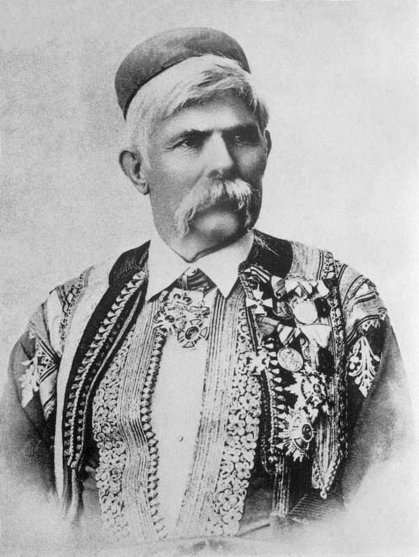 Marko Miljanov Popović (1833–1901), warrior and writer from Montenegro